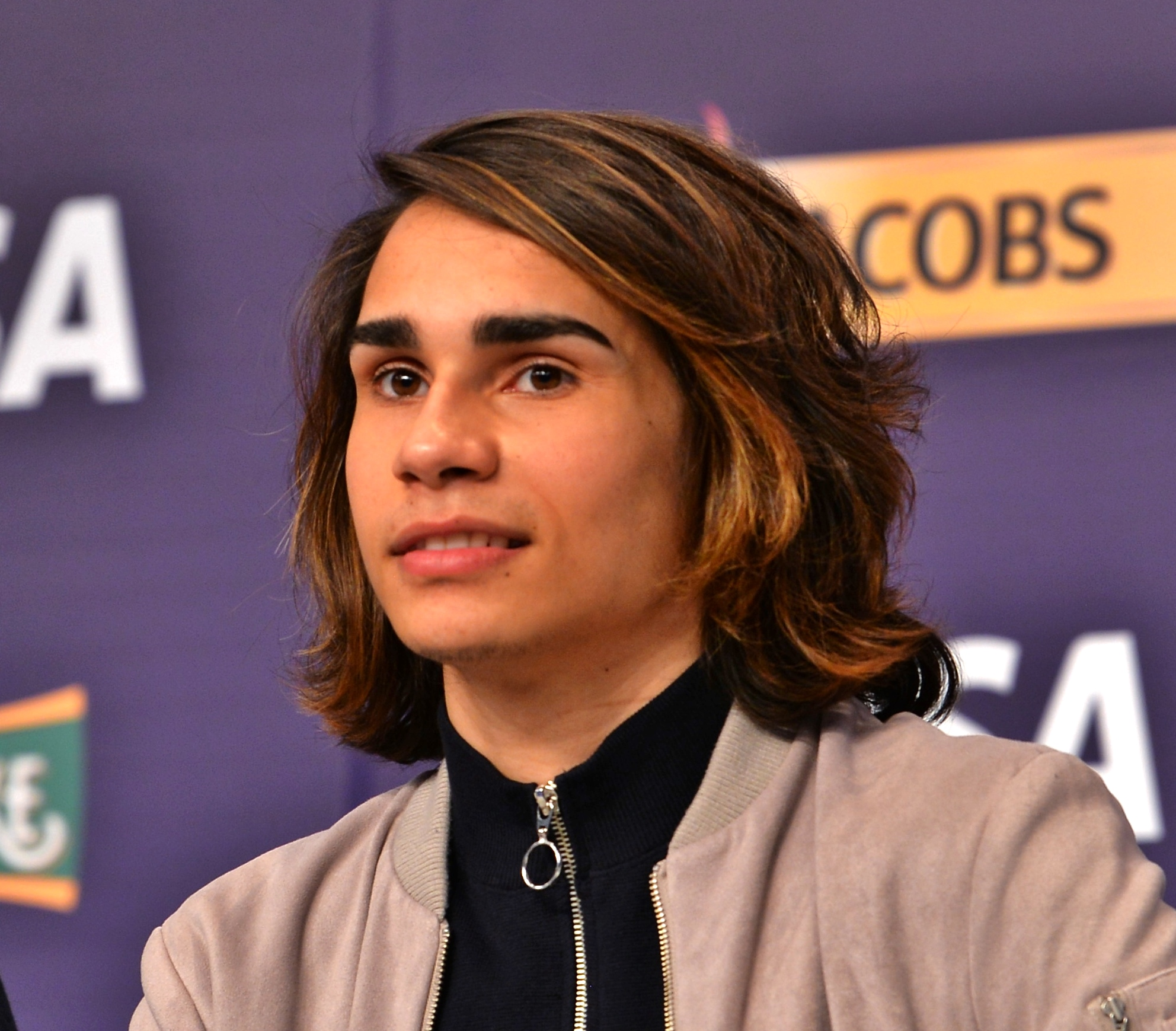 Australian singer Isaiah Firebrace in Kyiv 2017